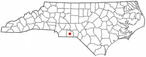 Category:North Carolina Dot Maps